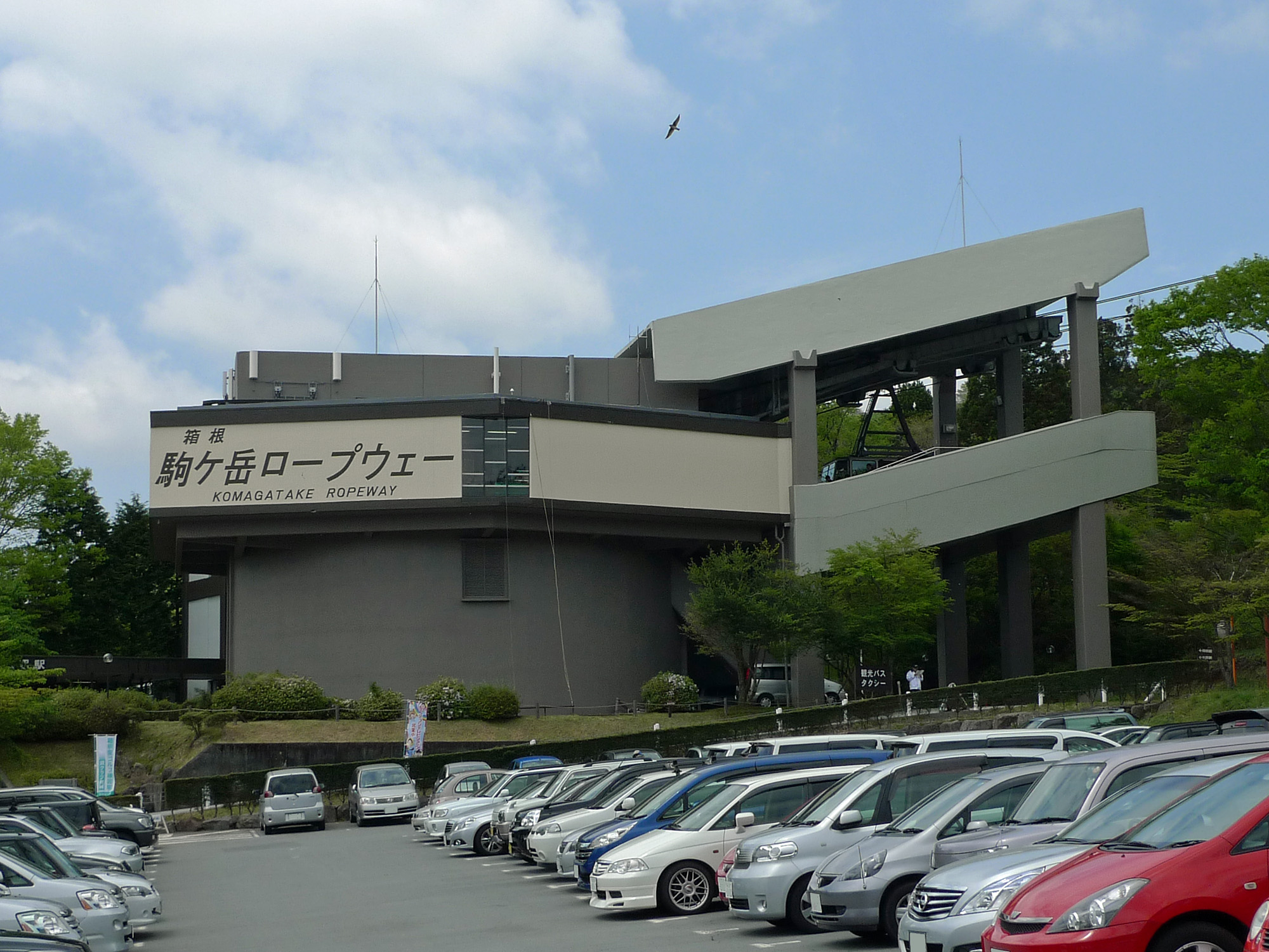 Hakone-en Station.